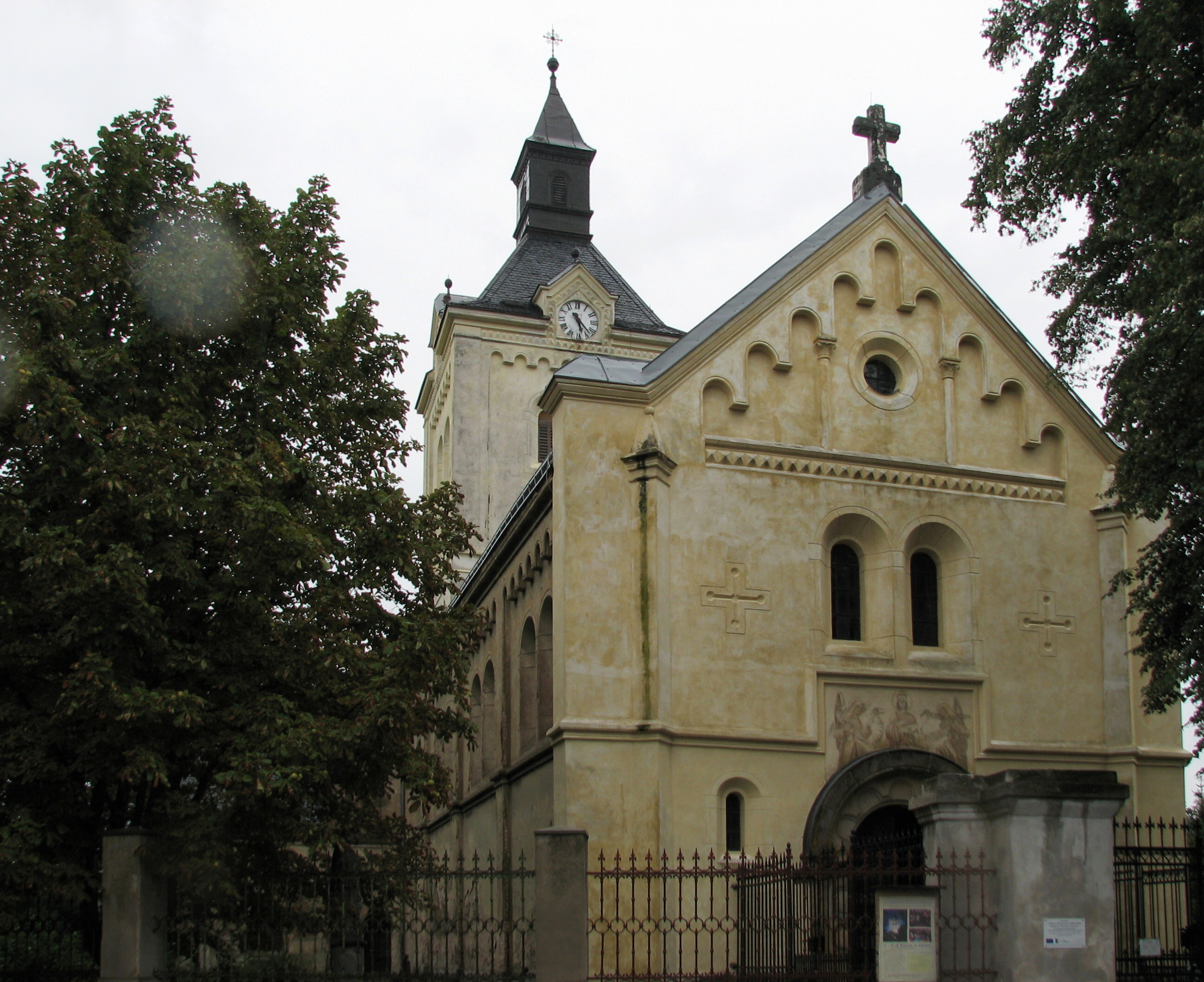 Church of Saint Wenceslaus in Nová Ves near by Kolín